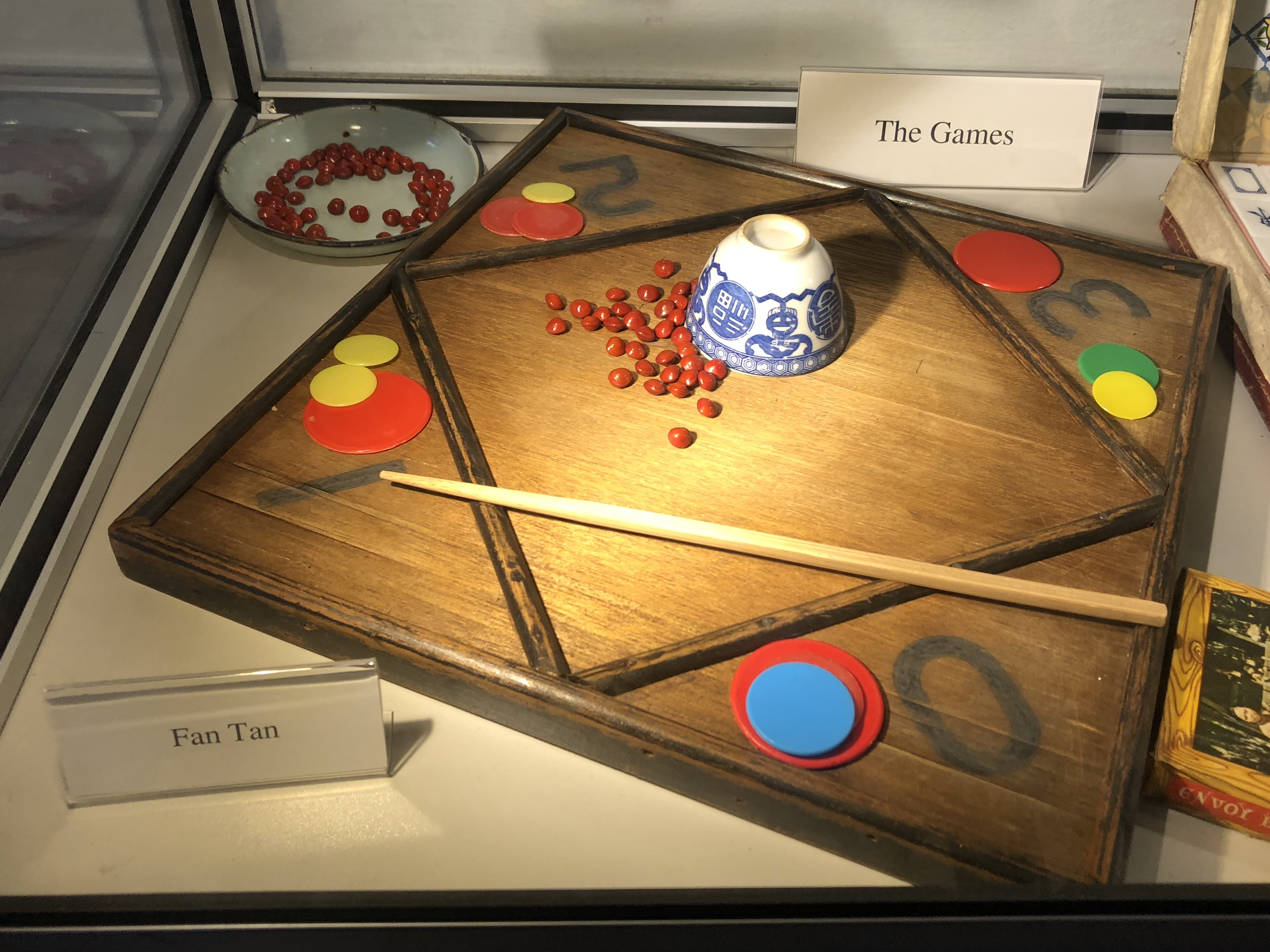 Game of Fan Tan at the Han Chin Pet Soo Museum in Ipoh, Malaysia